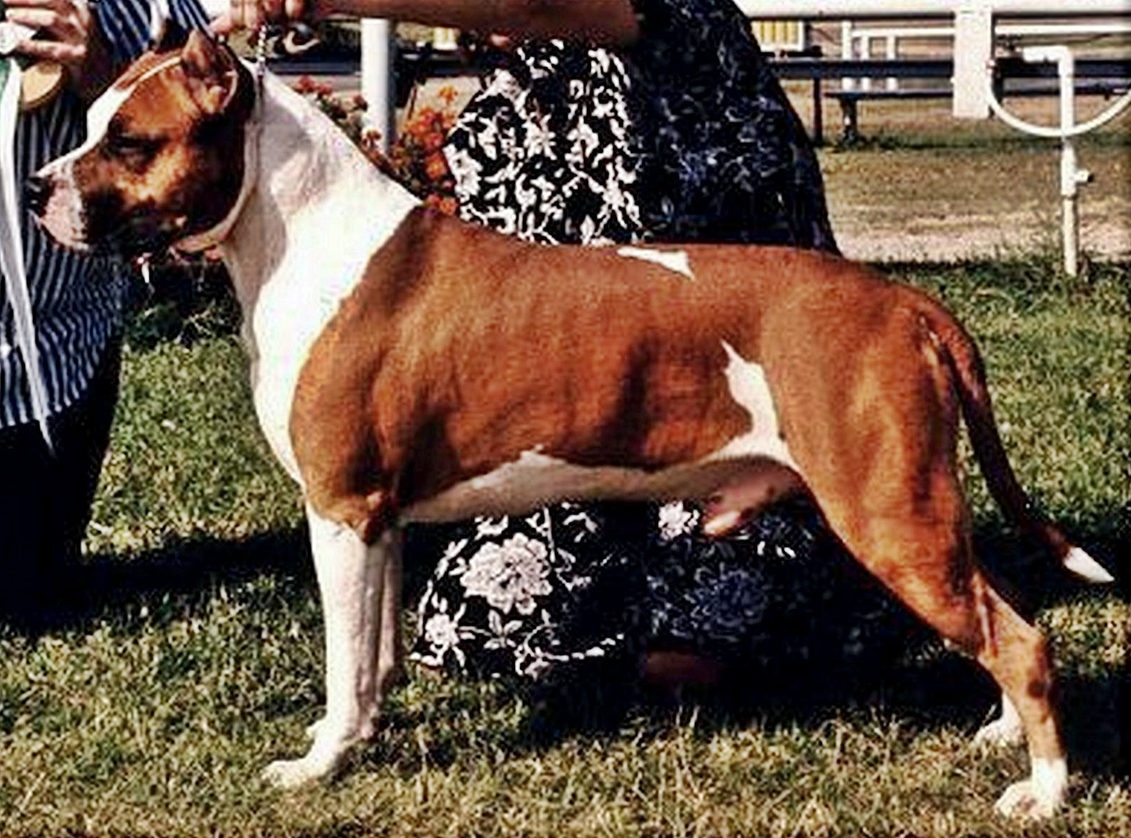 American Staffordshire Terrier dog named “CH Rowdytown's Hardrock Cafe”. Bred, owned and handled by Gigi Sager, owner of Rowdytown American Staffordshire Terriers kennels. UKC-AKC dual registered dog